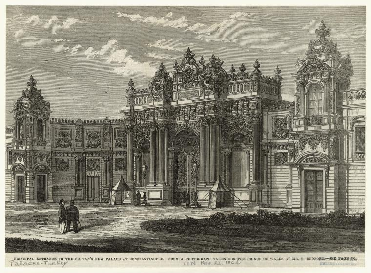 Principal entrance to the sultan's new palace at Constantinople